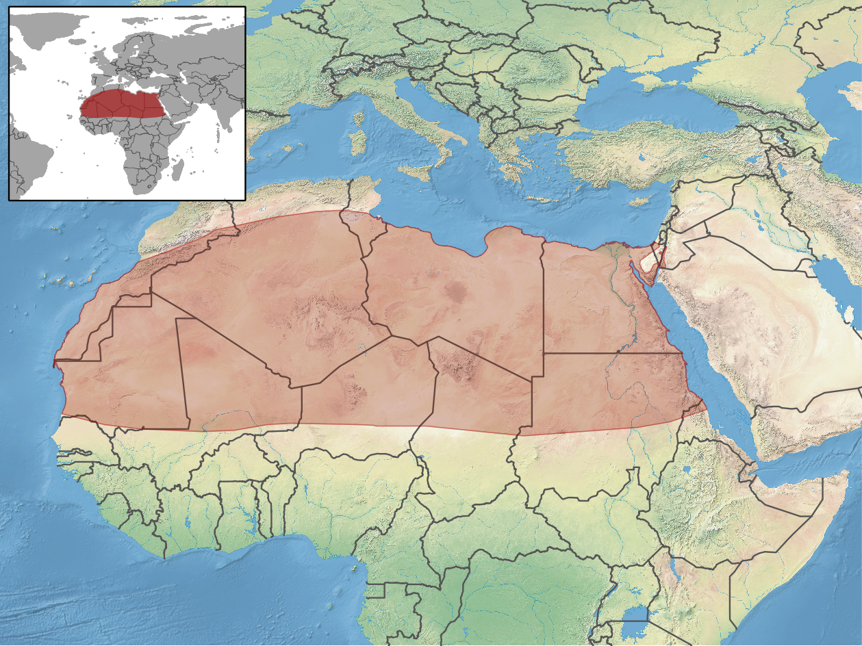 geographic distribution of Gerbillus gerbillus